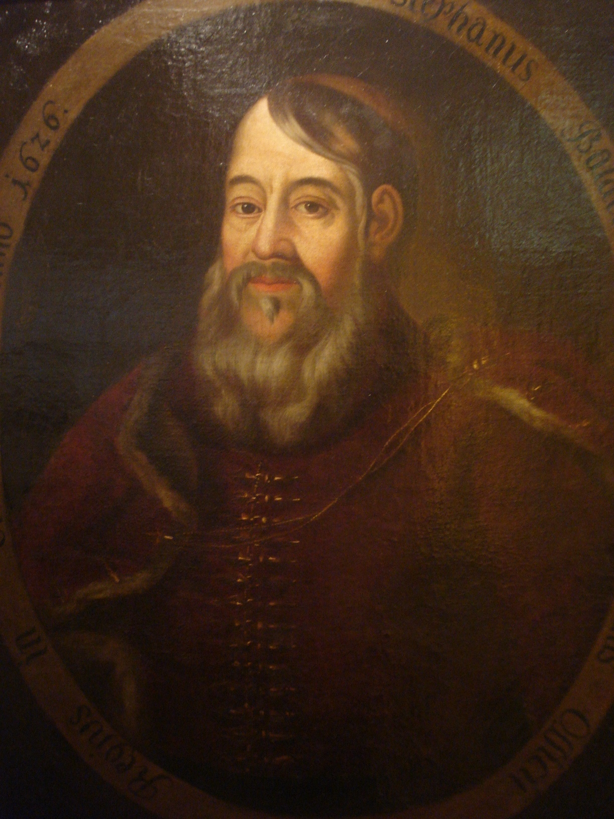 Stjepan Patačić /Steven Patachich/ (1576-1636), Croatian nobleman, protonotary of the Kingdom of Slavonia and Deputy Ban (Viceroy)